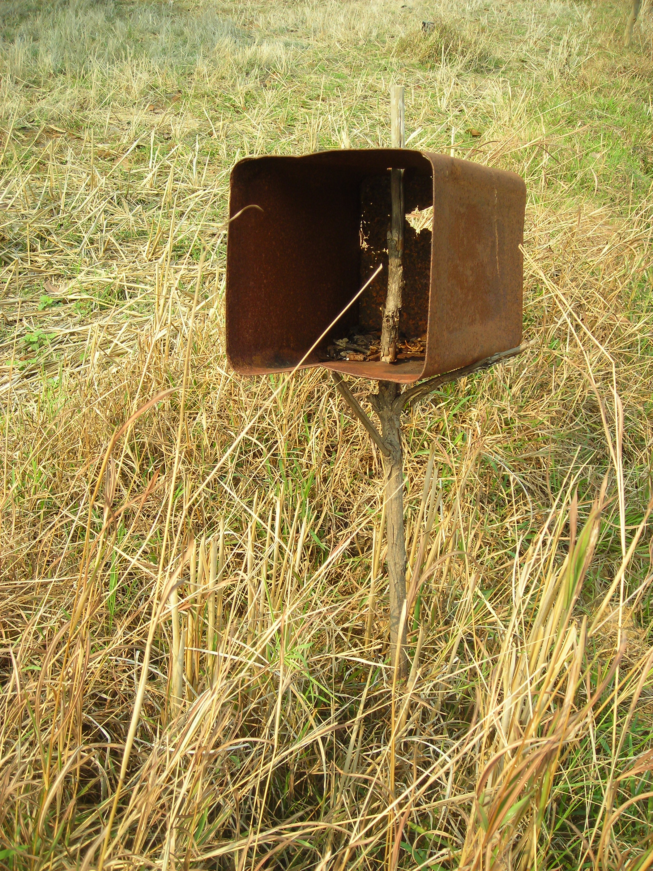 Spirit house at a rice field in Northeastern Thailand (without figures).